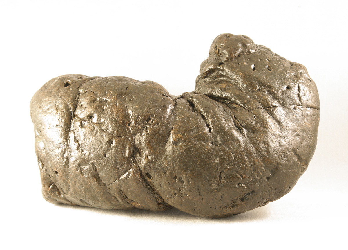 This legendary fossilized feces specimen is named "Precious". Fossil Type: Coprolite; Location Discovered: South Carolina, USA; Age: Miocene (23.03 to 5.332 million years before the present); Dimensions: 195.90mm X 125.35mm or 7.71” X 4.93” (The specimen would be over 254mm or 10” inches long if it wasn’t bent.); Weight: 1.92kg (4lbs 3.5oz)